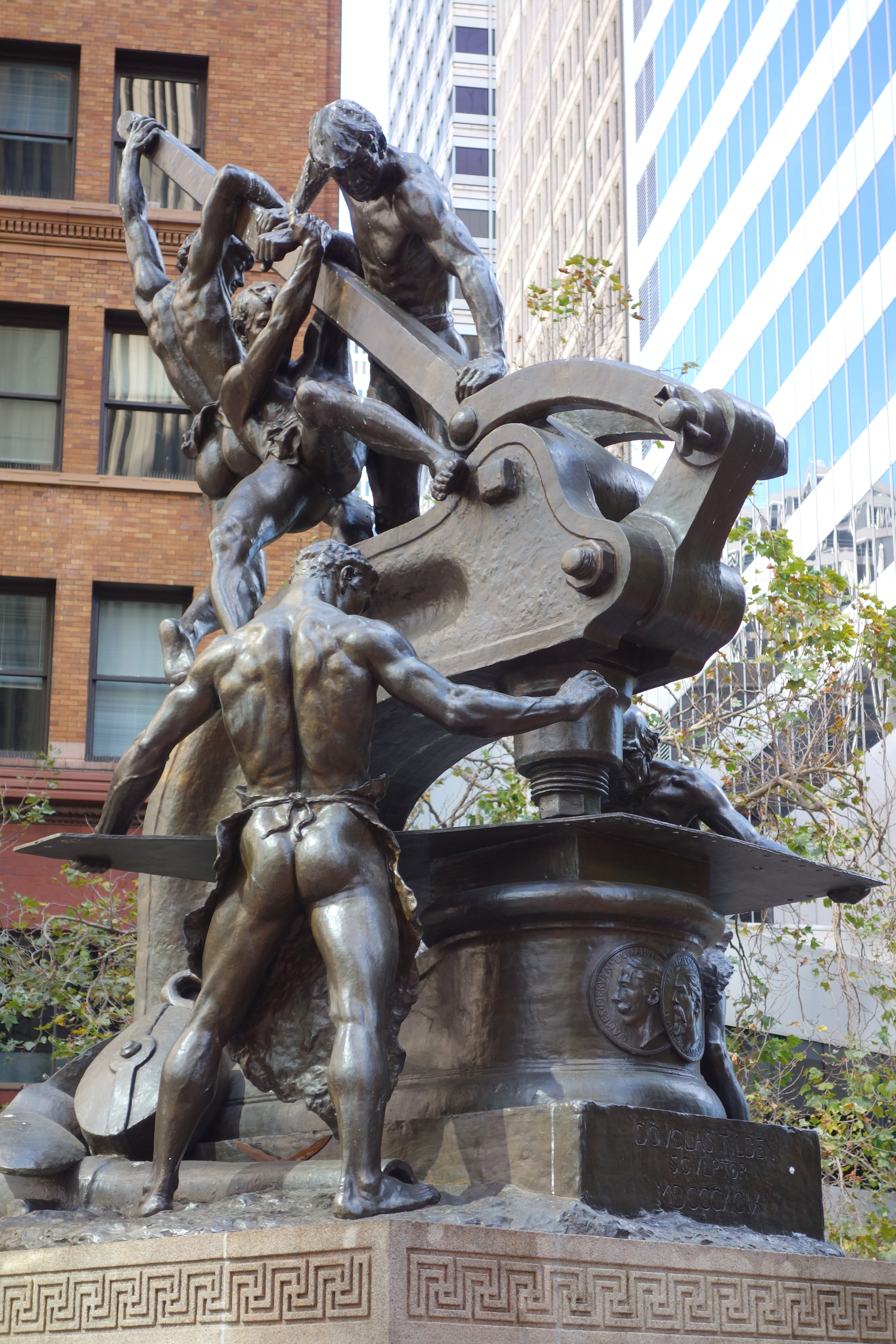 Mechanics Monument by Douglas Tilden (1860-1935), located at the intersection of Market, Bush and Battery Streets in San Francisco, California, United States. Dedicated on May 15, 1901. It was was originally to be called the Donahue Memorial Fountain, as it was funded by businessman James Mervyn Donahue. This artwork is in the public domain because the artist died more than 70 years ago.